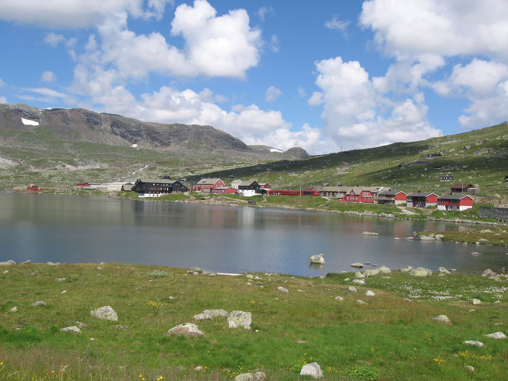 The Town of Finse, Norway